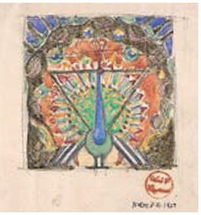 photo